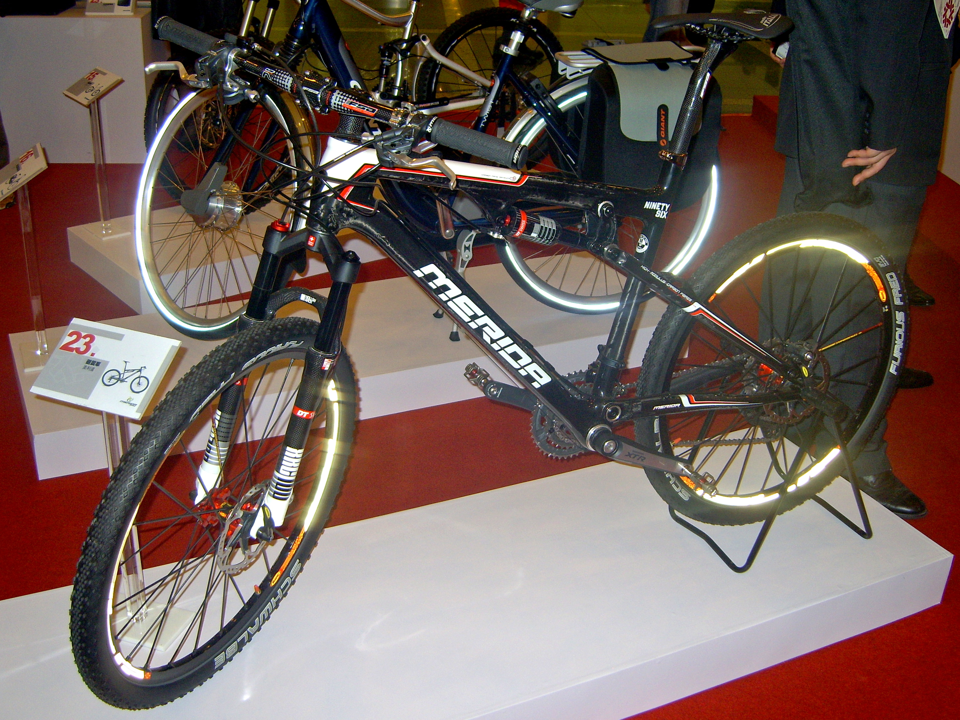 2008 Taiwan Excellence Awards: Ninety Six Series by Merida Corp.